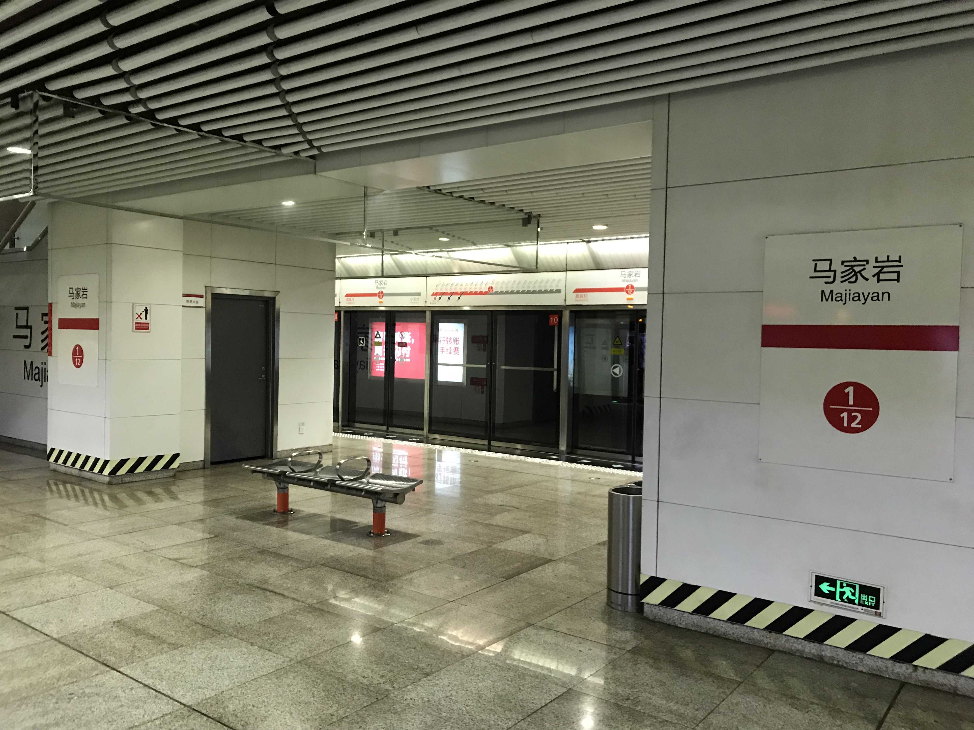 201908 Majiayan Station Platform